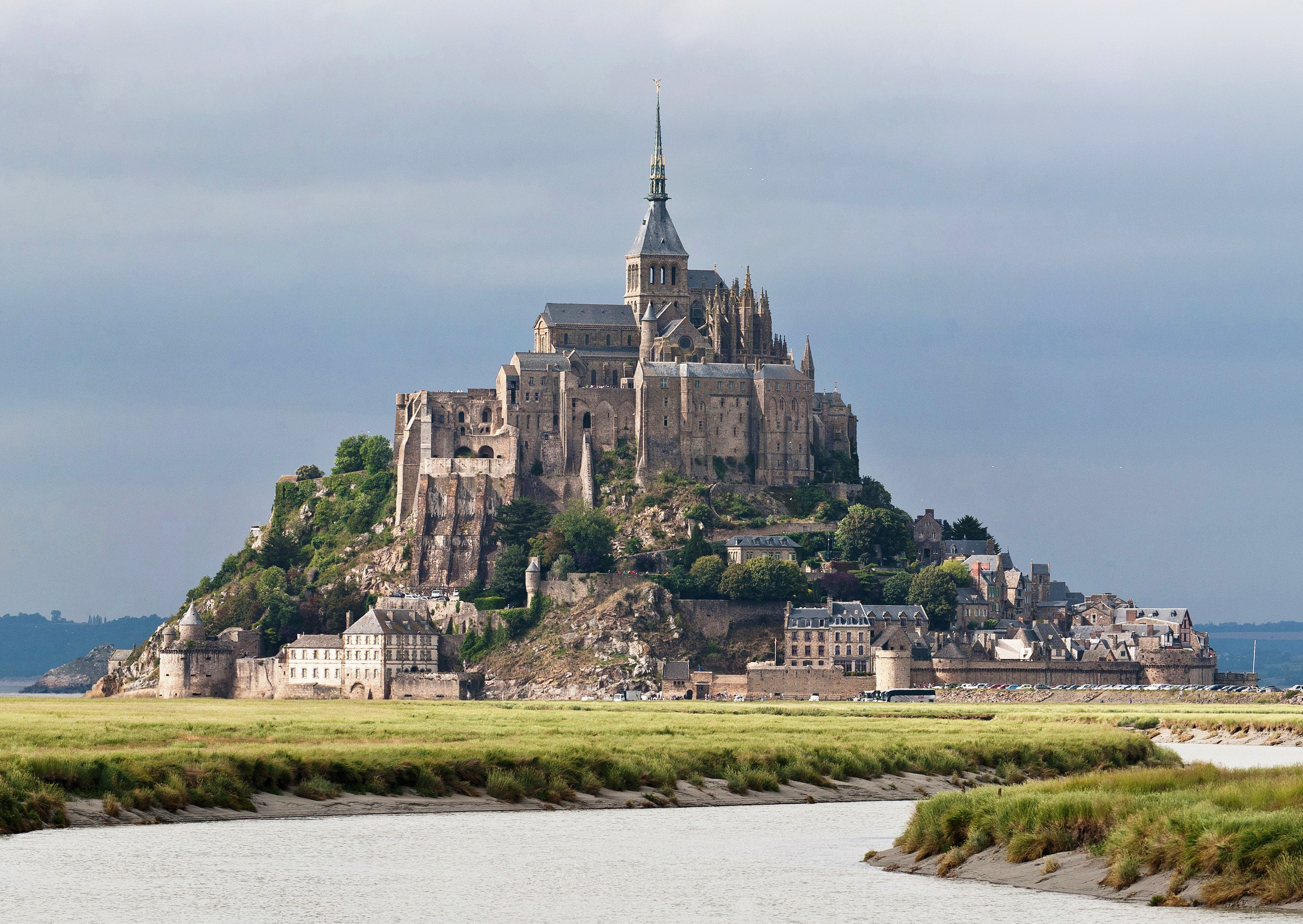 Mont Saint-Michel as viewed along the Couesnon River in Normandy, France